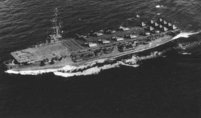 The U.S. Navy escort carrier USS Gilbert Islands (CVE-107) underway, in 1945. She wears Camouflage Measure 21.